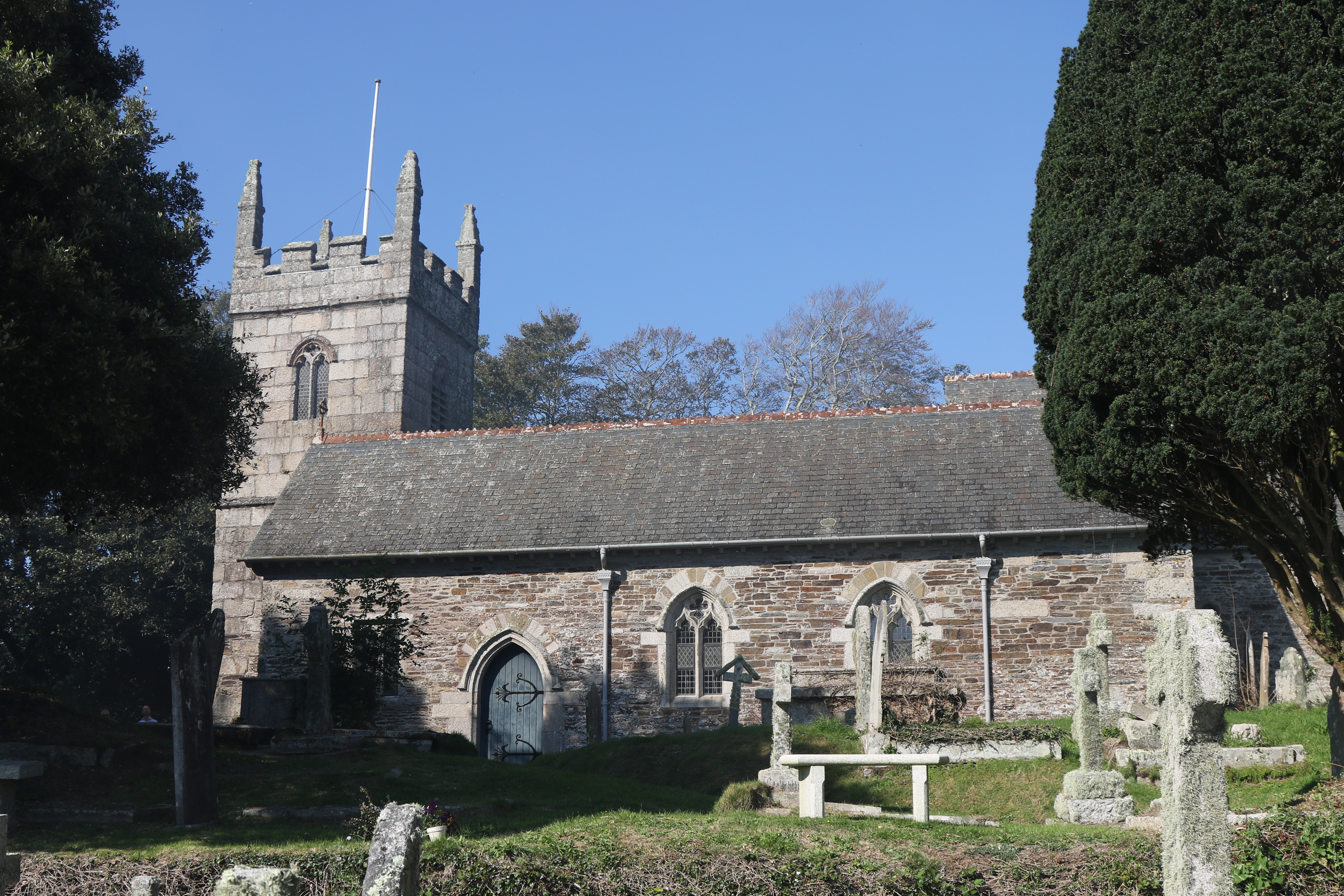 South side of the church.